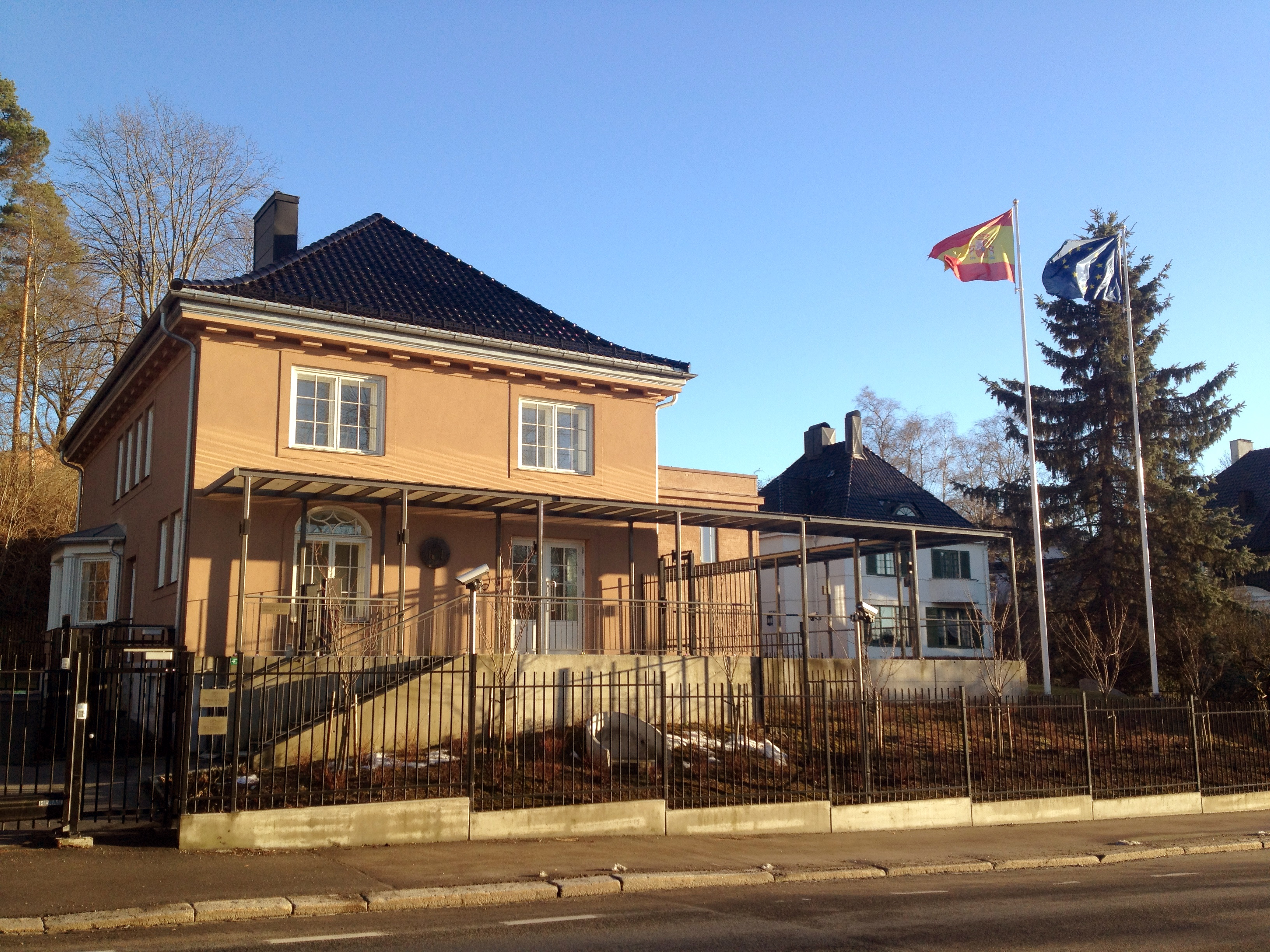 Spanish Embassy, Oslo.